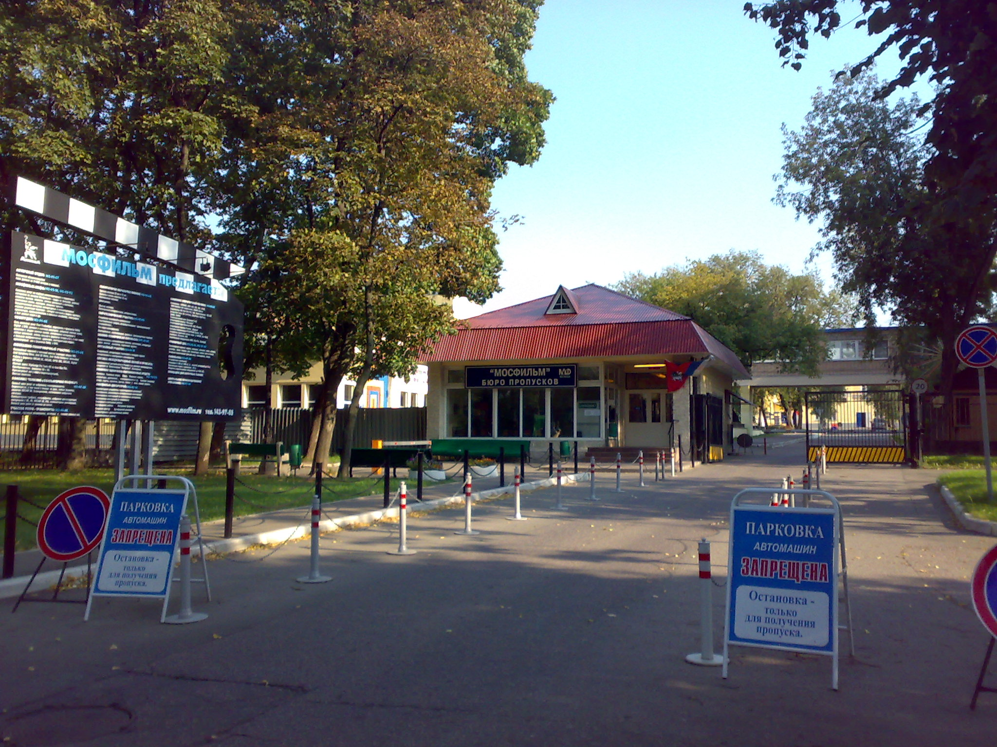 took this image using my mobile phone on 7 September, 2008. Entrance to Mosfilm Studios, off Mosfilmovskaya Street, Moscow.